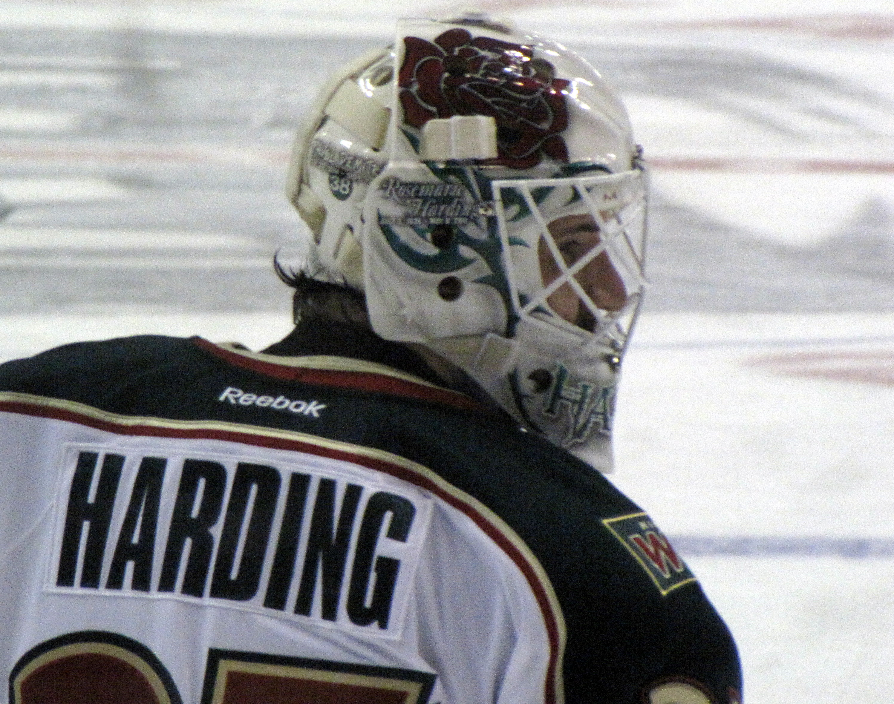 Goaltender Josh Harding of the Minnesota Wild prior to a game against the Los Angeles Kings on December 12, 2011.